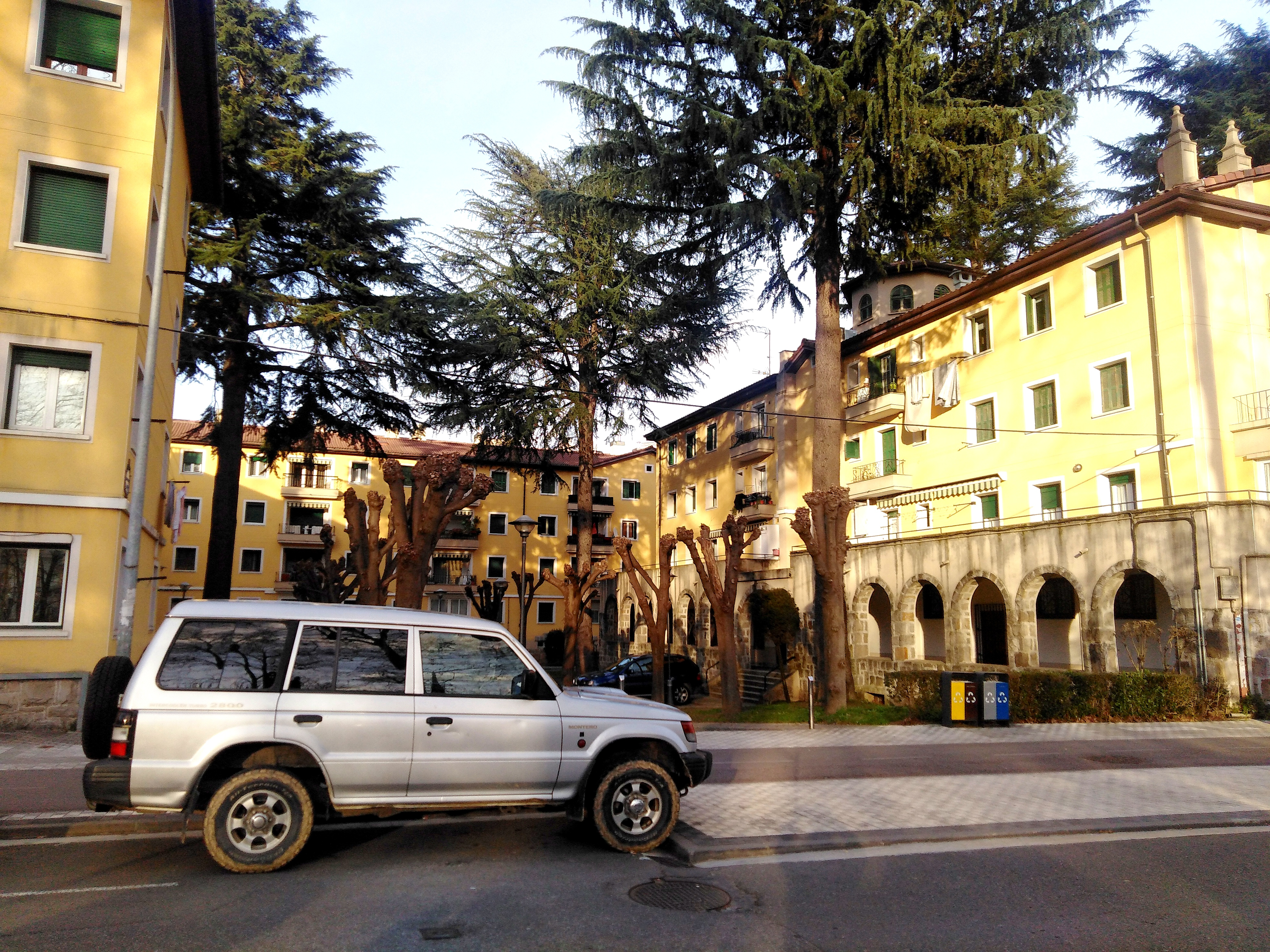 Aita Urdaneta, Ordizia, Gipuzkoa, Basque Country